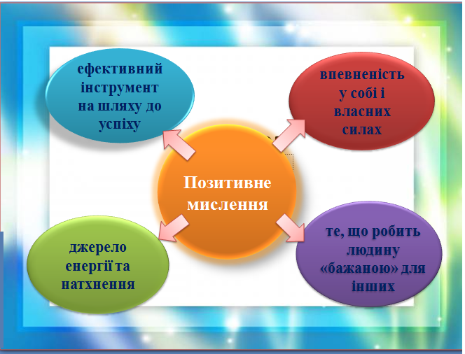 Scheme which explains the meaning and the role of positive thinking